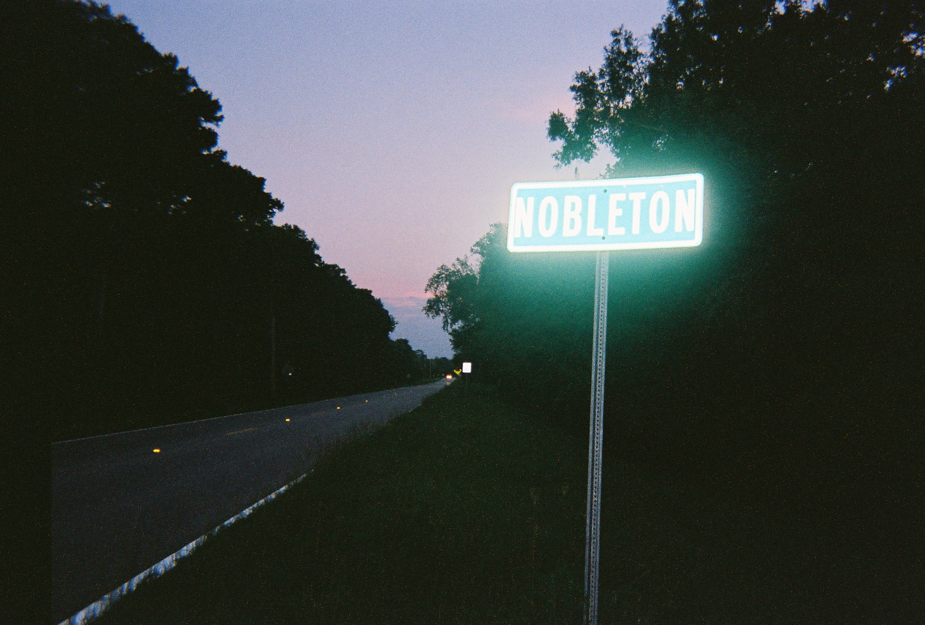 Dark shot of eastbound Hernando County Road 476 entering Nobleton, Florida